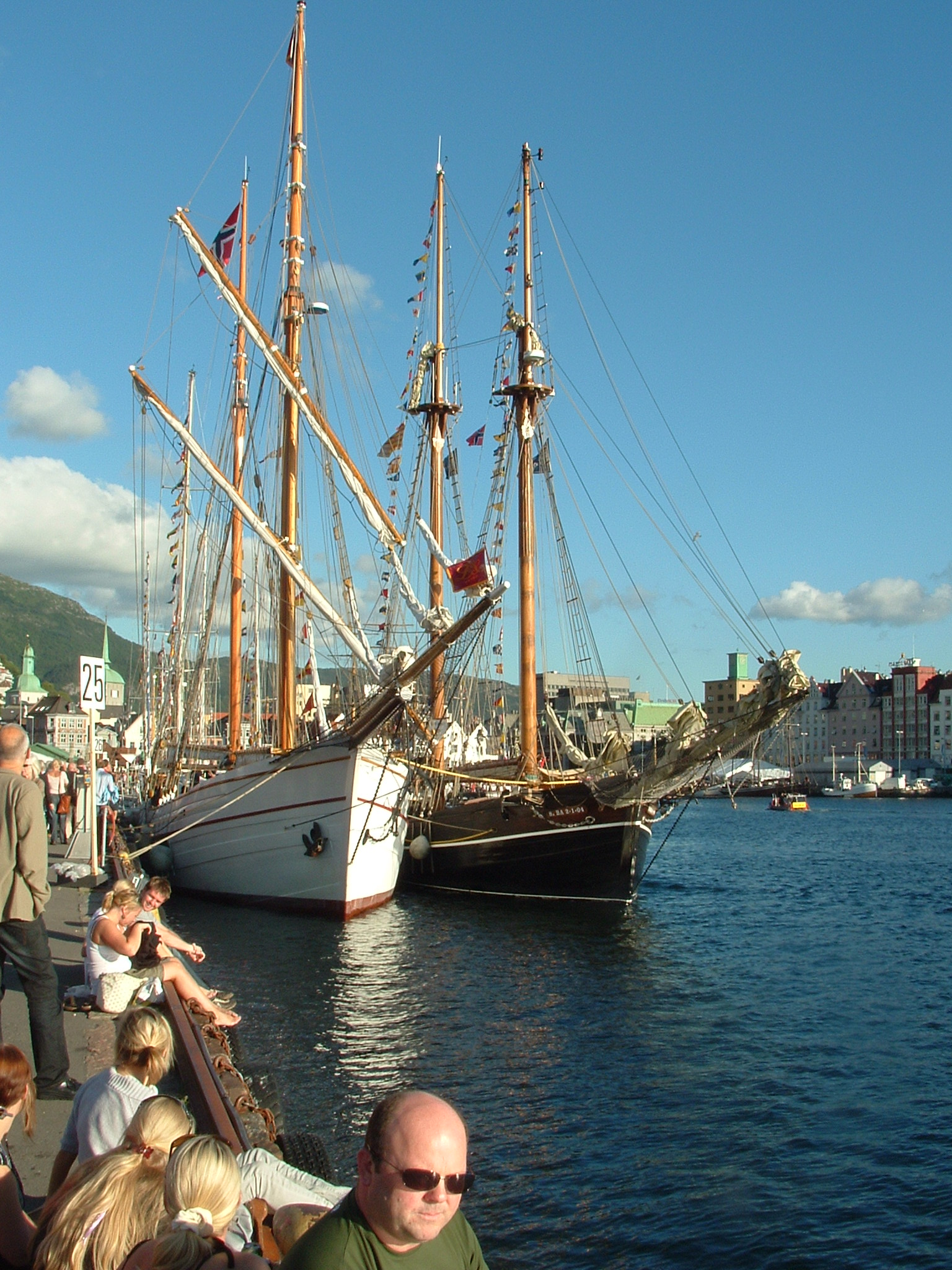 Front wiew Loyal and Far Barcelona,galeas & gaff schooner